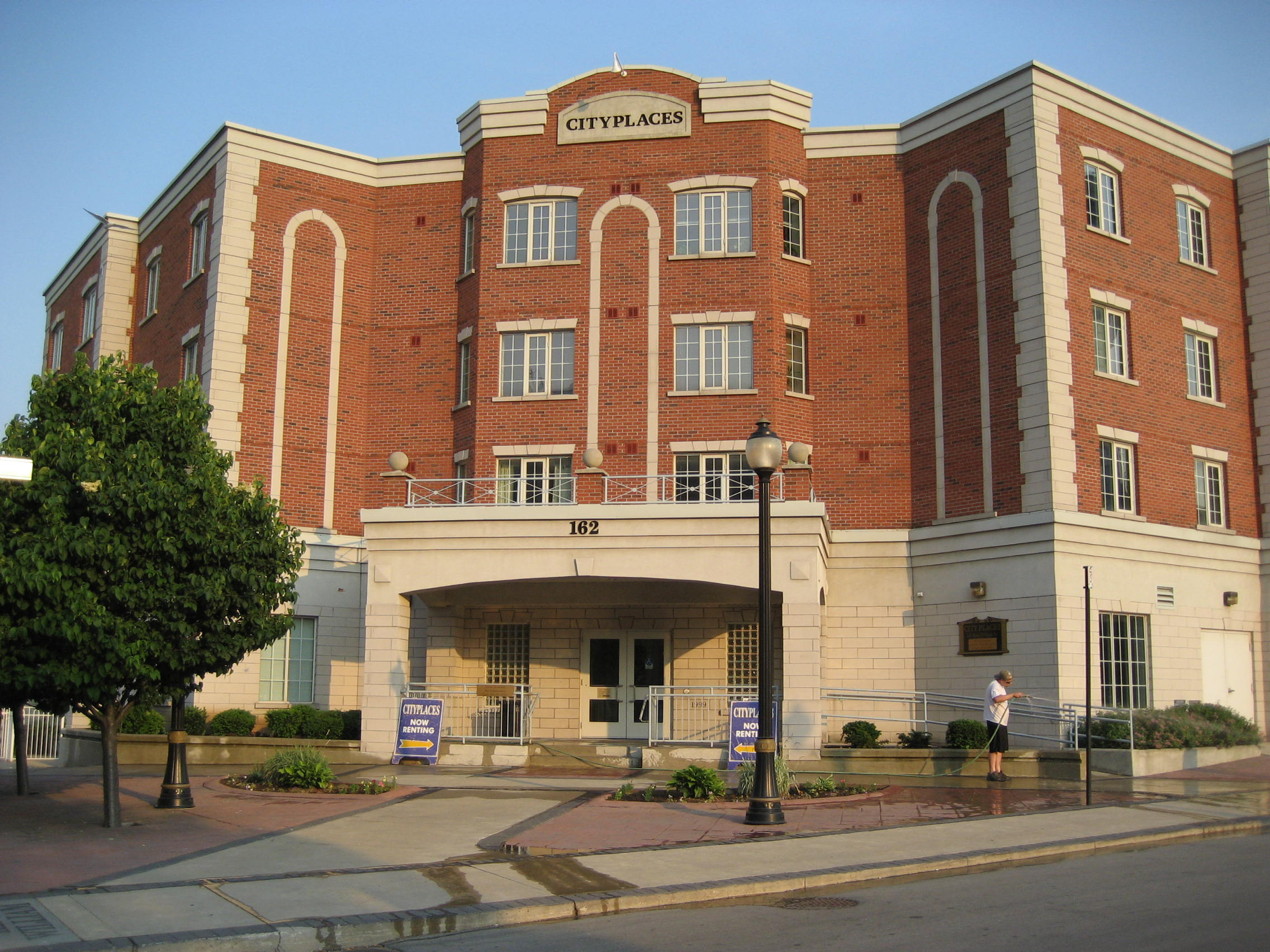 Residential Apartment Building, King William Street, Hamilton, Ontario